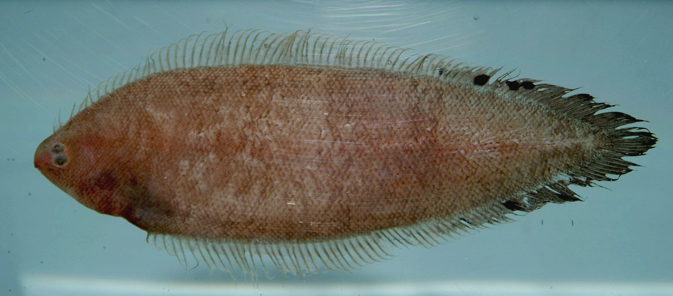 Spottedfin tonguefish ( Symphurus diomedeanus ). Gulf of Mexico.